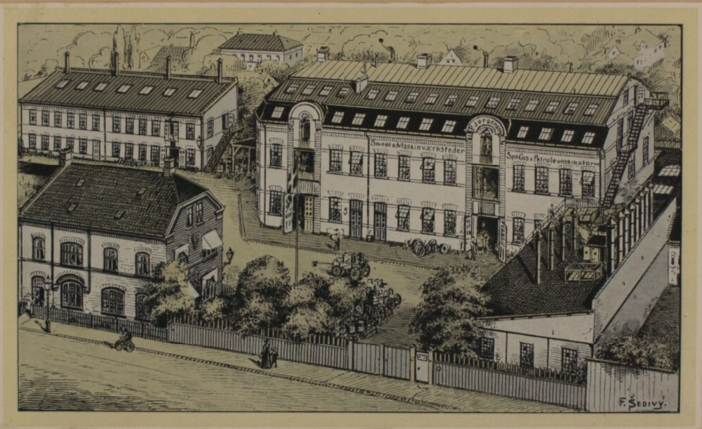 Aktieselskabet P. Jørgensens "Dan" Motorfabriker in Bragesgade in Copenhagen, Denmark